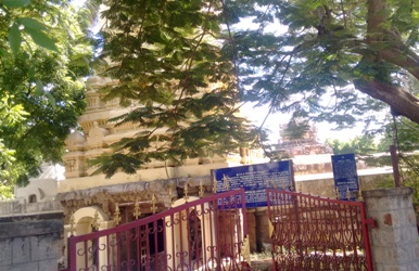 Keelaiyur irattaikkovilkal கீழையூர் இரட்டைக்கோயில்கள்